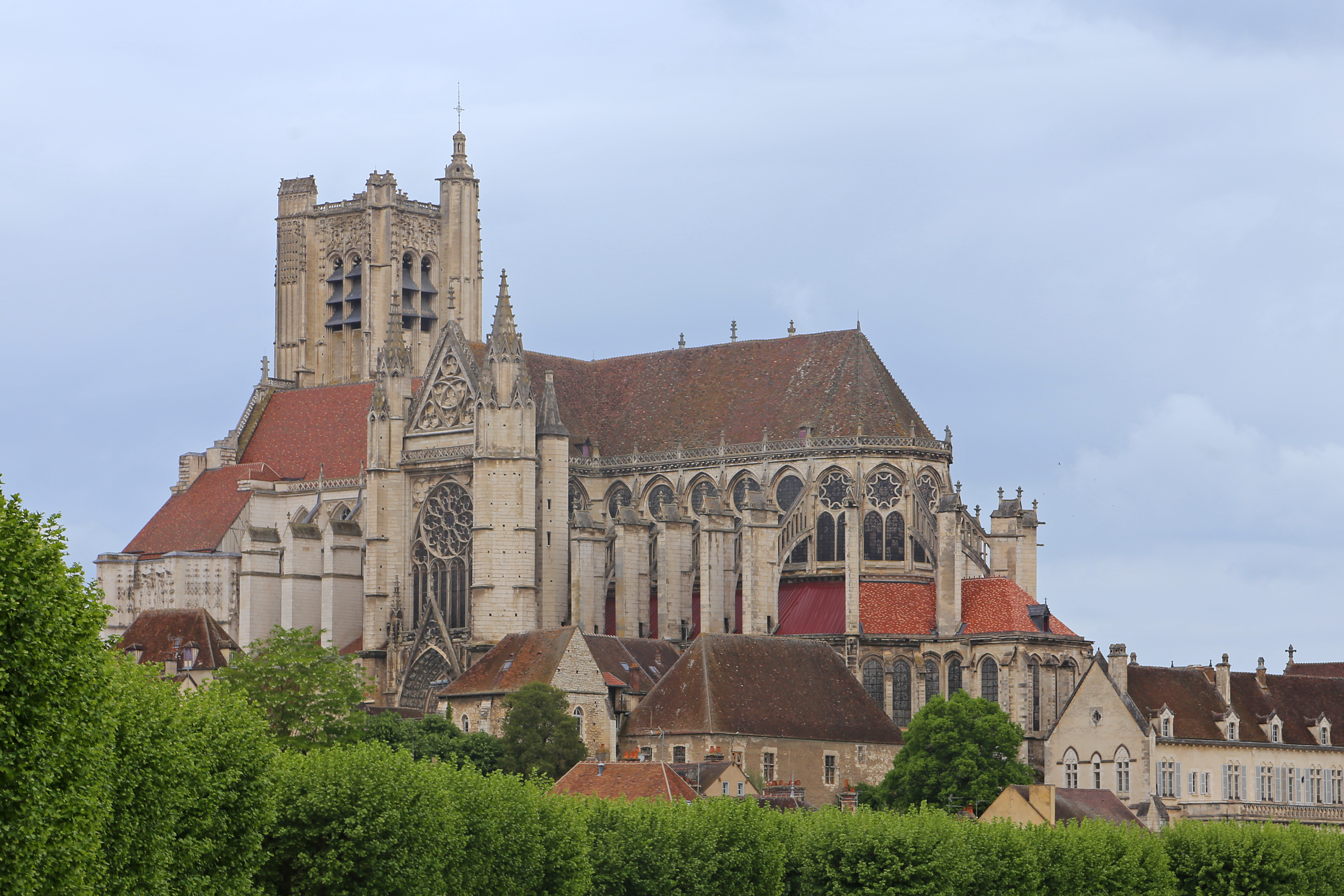 The Cathedral of Auxerre, a French town in the Bourgogne-Franche-Comté region.